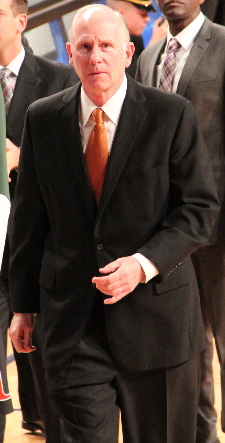 Jim Larrañaga, 2014